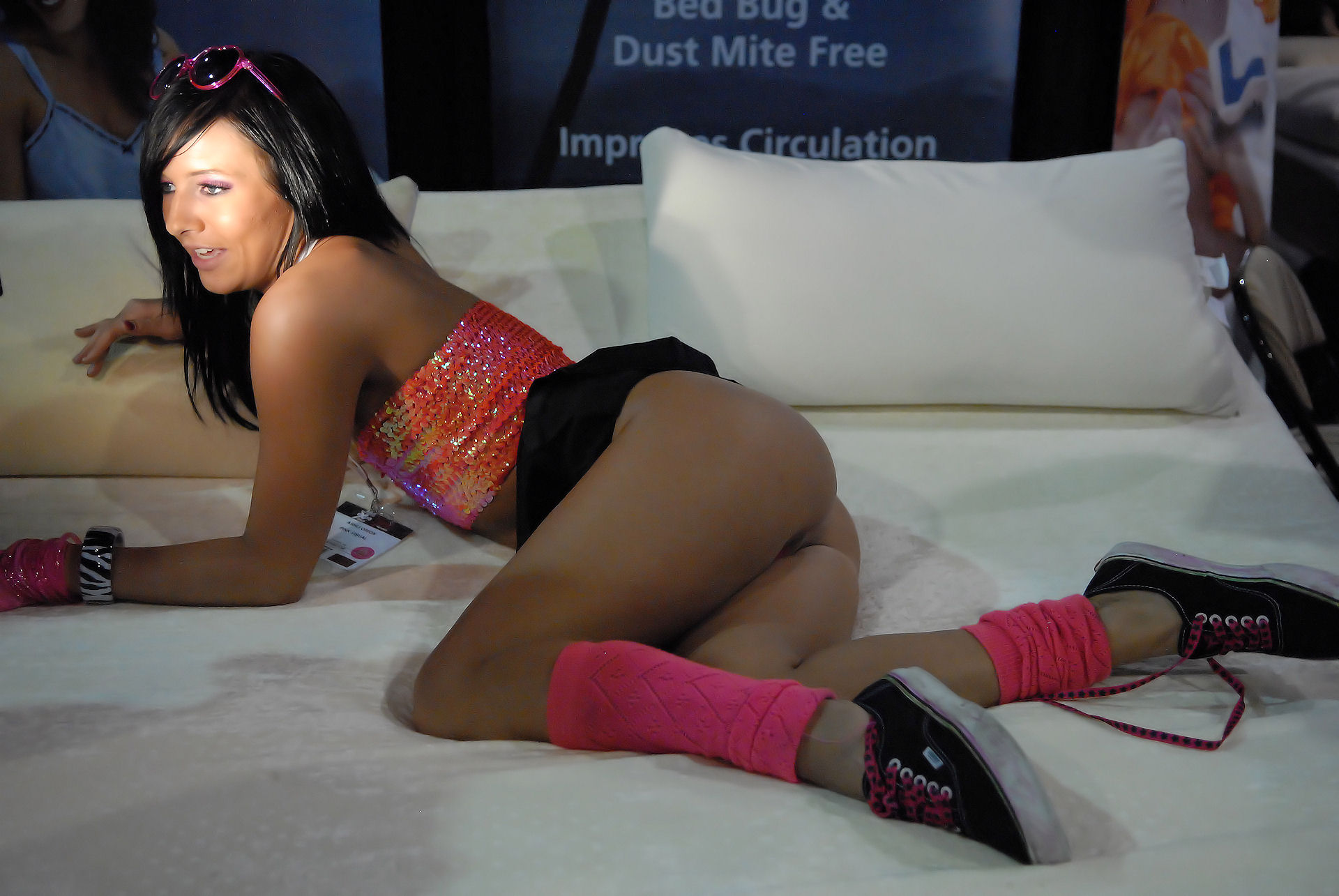 Ashli Orion at AVN Adult Entertainment Expo 2009.